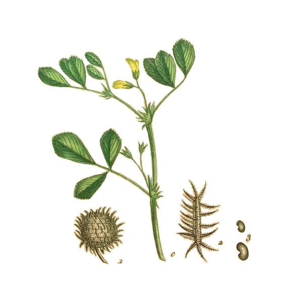 Illustration of Medicago ciliaris.